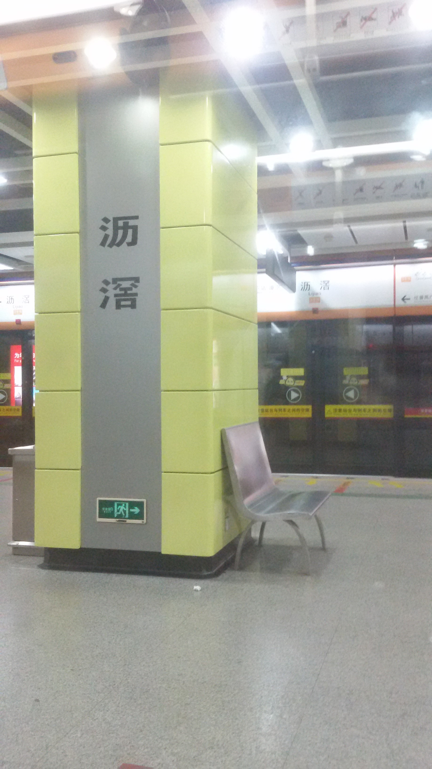 WORD on PILLAR for Lijiao Station in Guangzhou Metro